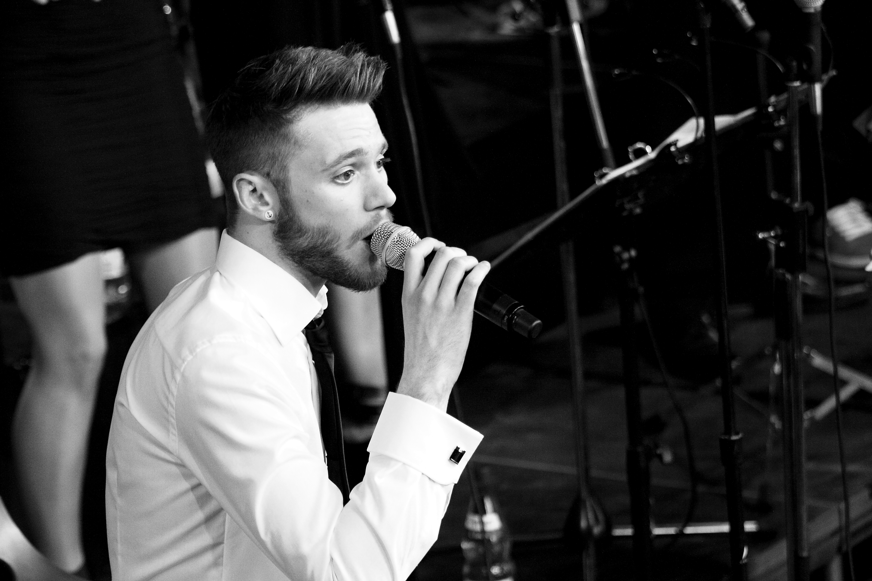 Roman Lob